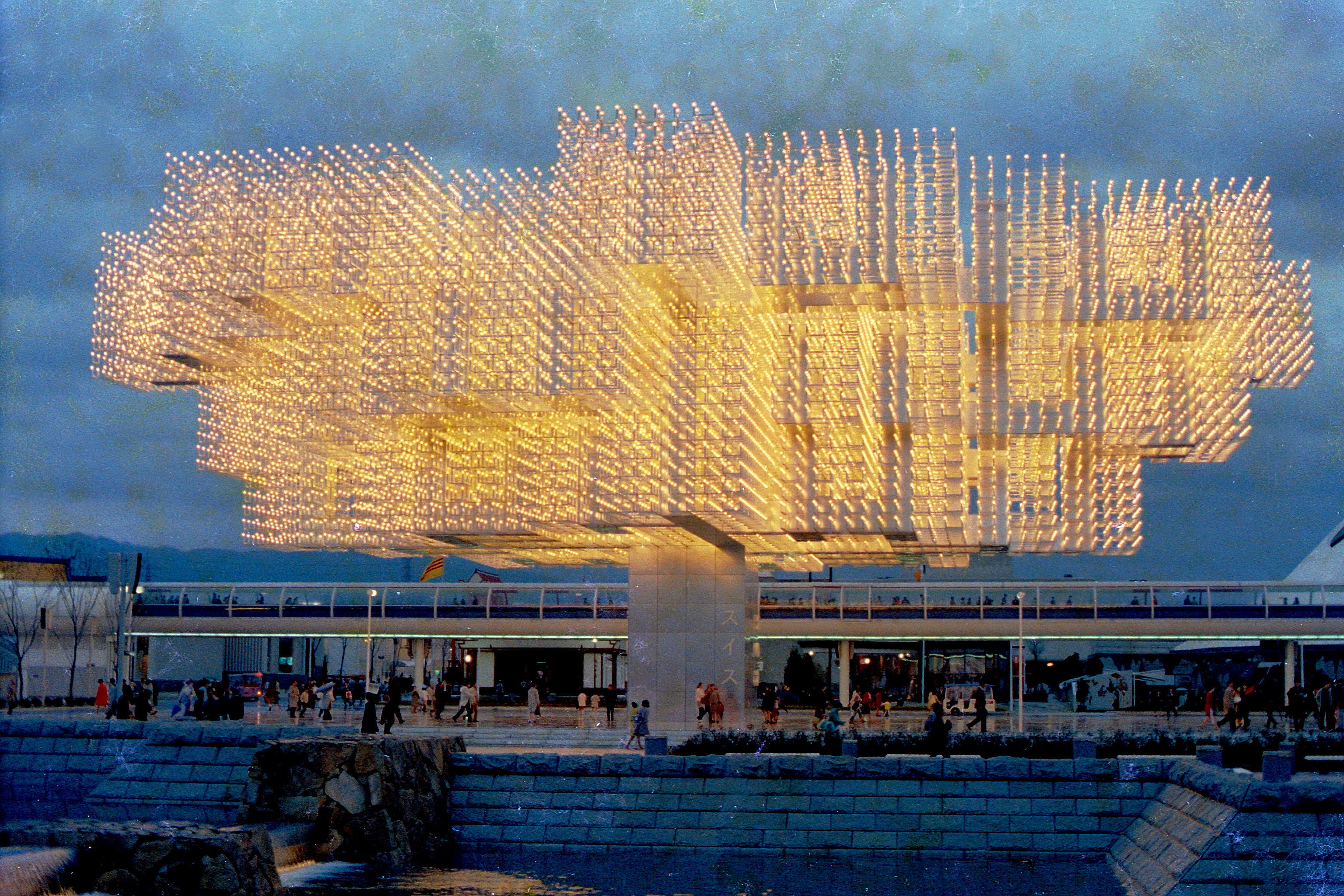 Switzerland Pavilion, Osaka Expo'70. April 1970.